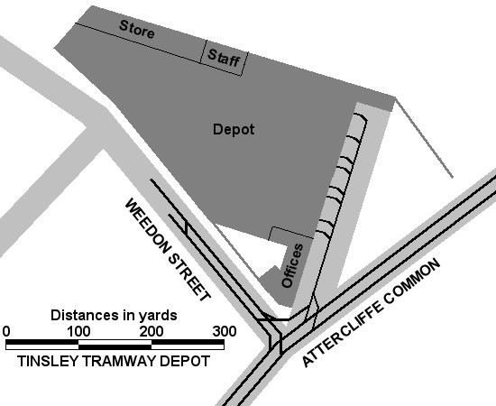 Map of Sheffield Corporation Tramways Tinsley Depot, Sheffield.